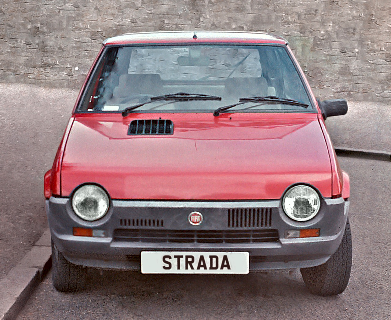 Fiat Strada (UK version, AKA Fiat Ritmo) viewed from front. Fairly major Photoshopping. (Regrettably, having been taken directly from the front, this photo does not give a clear impression of the true shape of the car. Photographing it from just a slight angle would have improved this aspect significantly.)